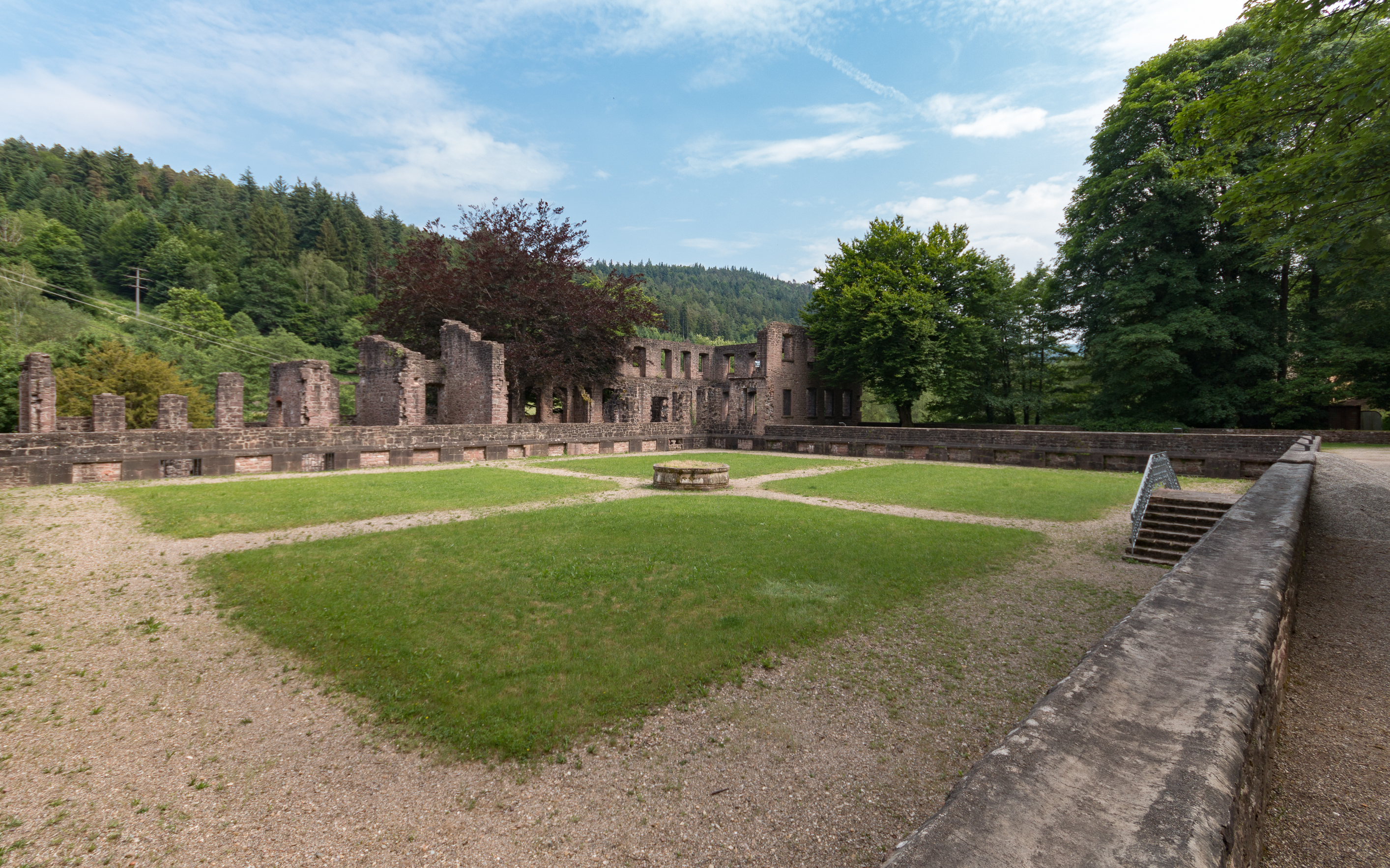 Ruins of Frauenalb Abbey